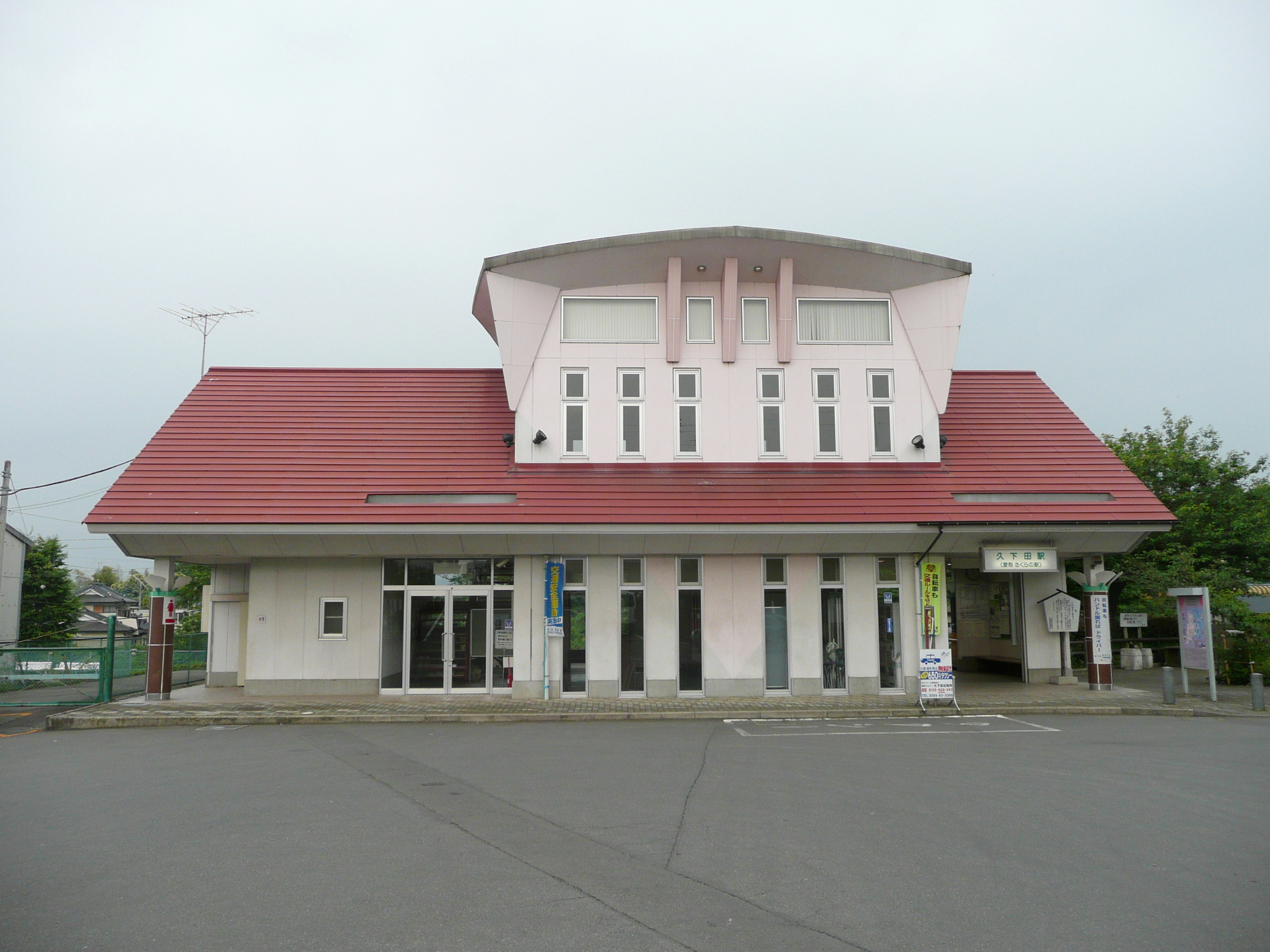 Kugeta Station,Moka Railway.